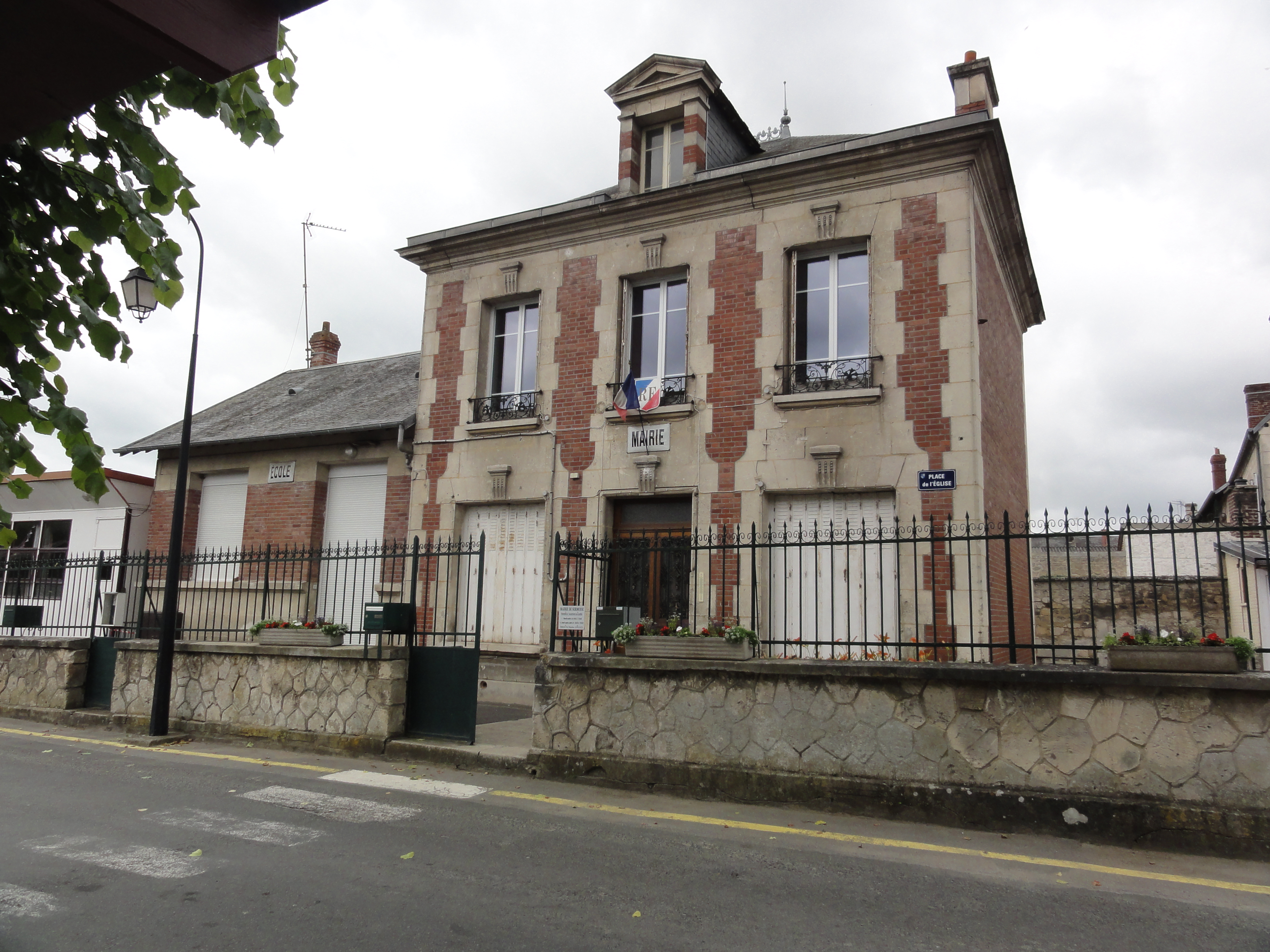 Sermoise (Aisne) mairie-école